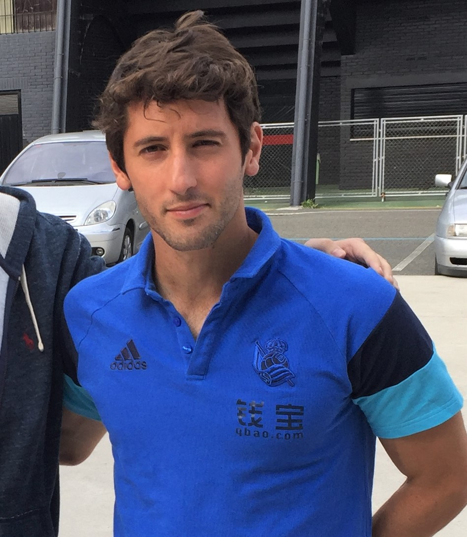 Esteban Granero during a friendly pre-match against Sporting Gijon